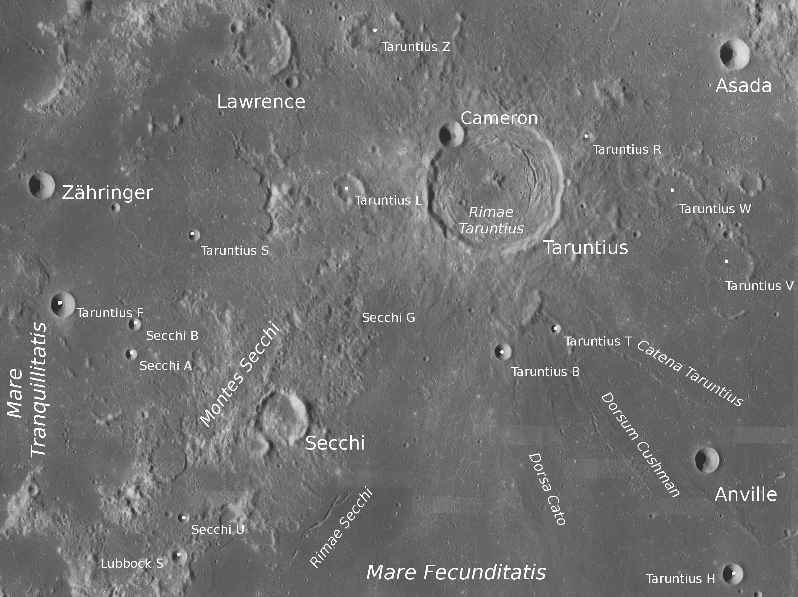 Crater Taruntius and Montes Secchi (detail of LRO - WAC global moon mosaic; Mercator projection)